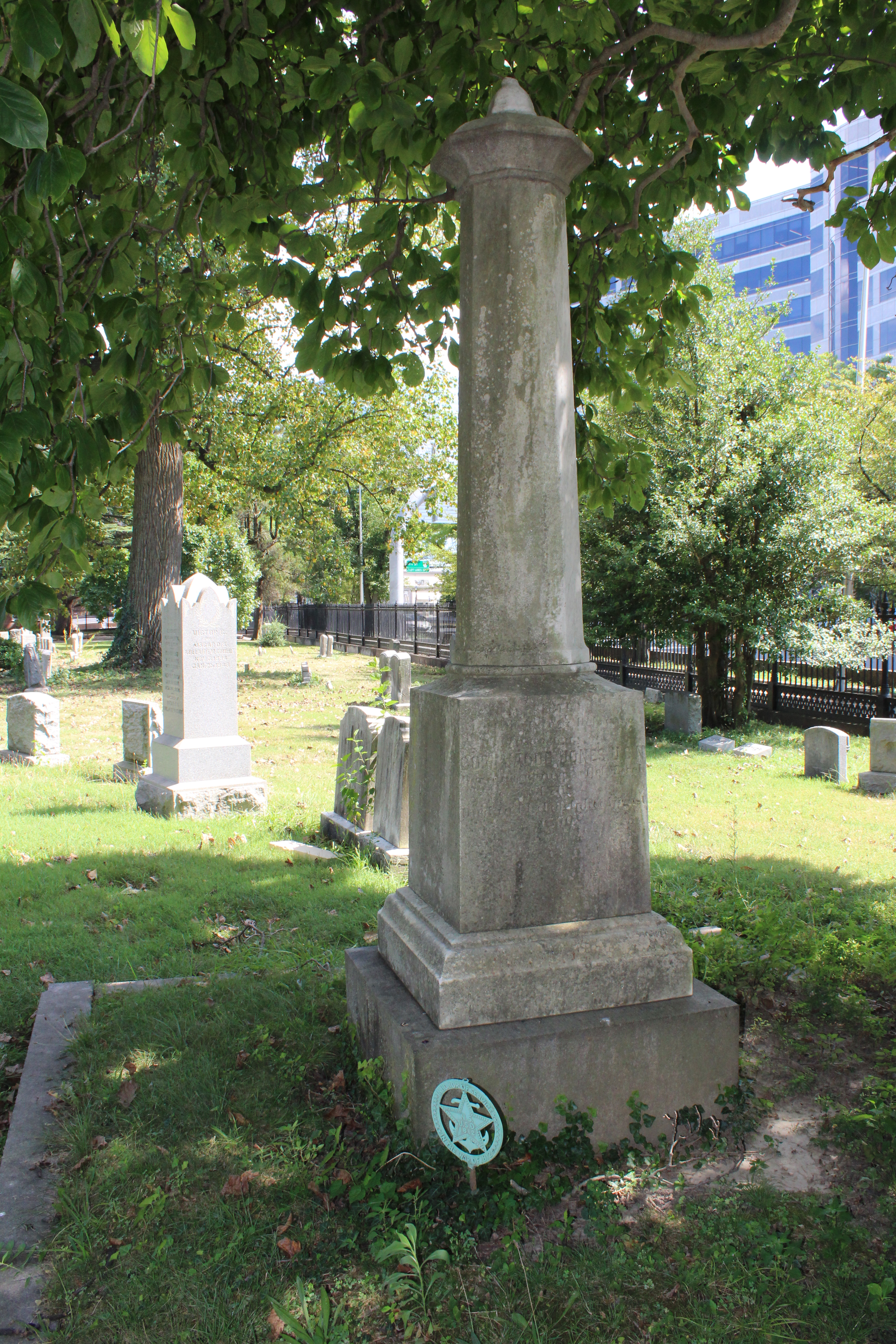 Jacob Jones Memorial in Wilmington and Brandywine Cemetery. Photo taken August 2019.